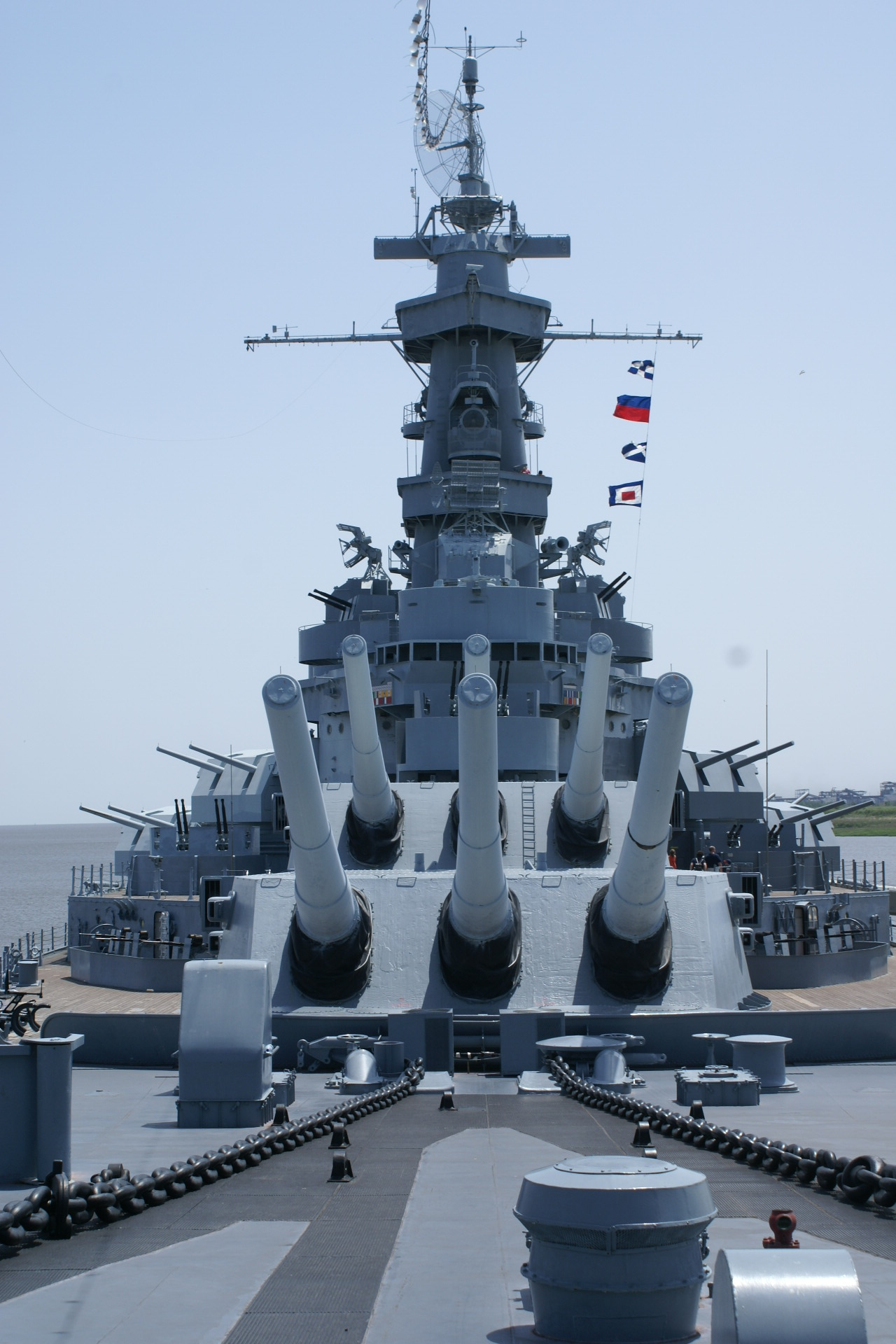 This is the U.S.S. Alabama at Battleship Memorial Park in Mobile, AL